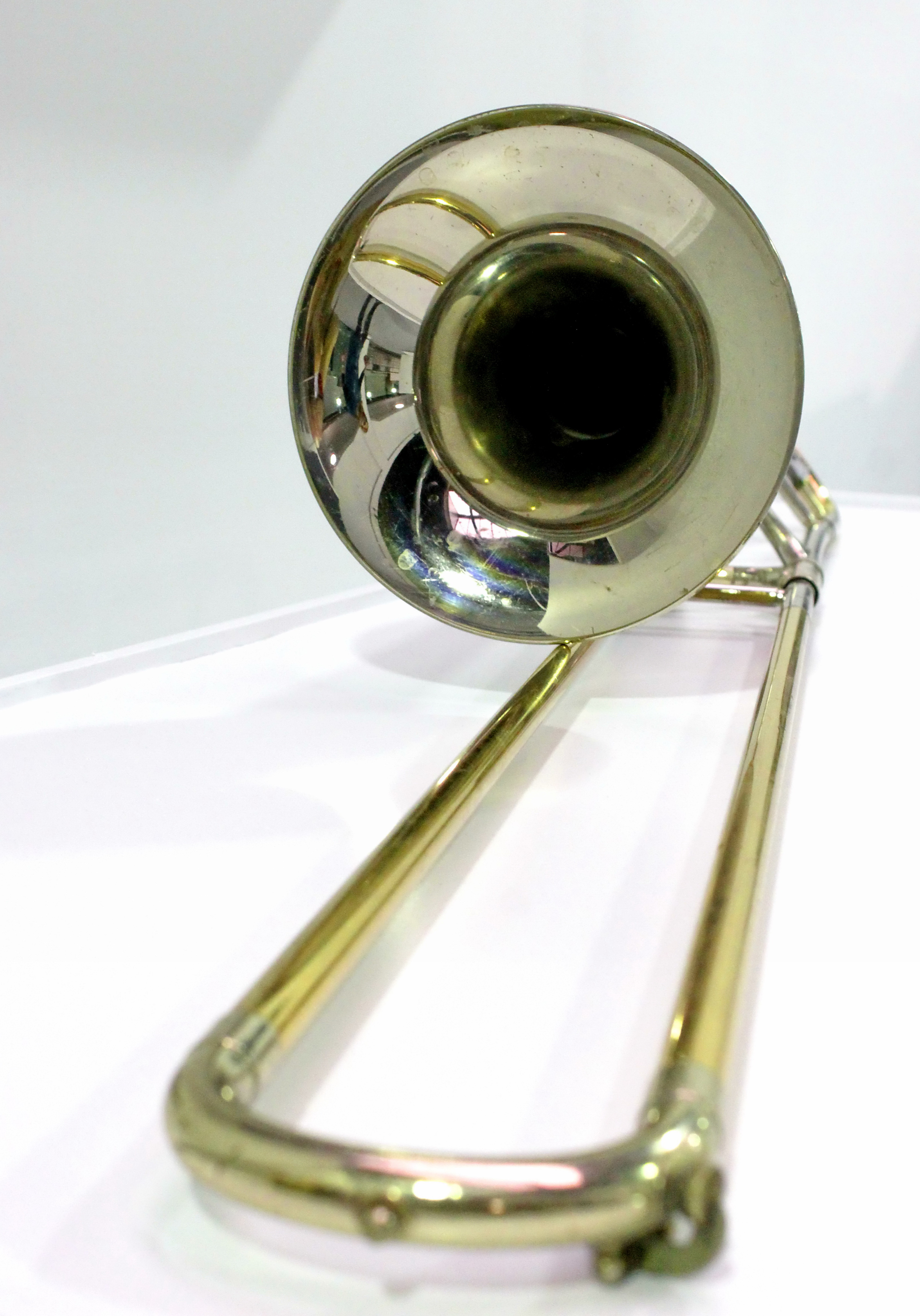 Trombone G.G.Conn from USA. From around 1950. year.